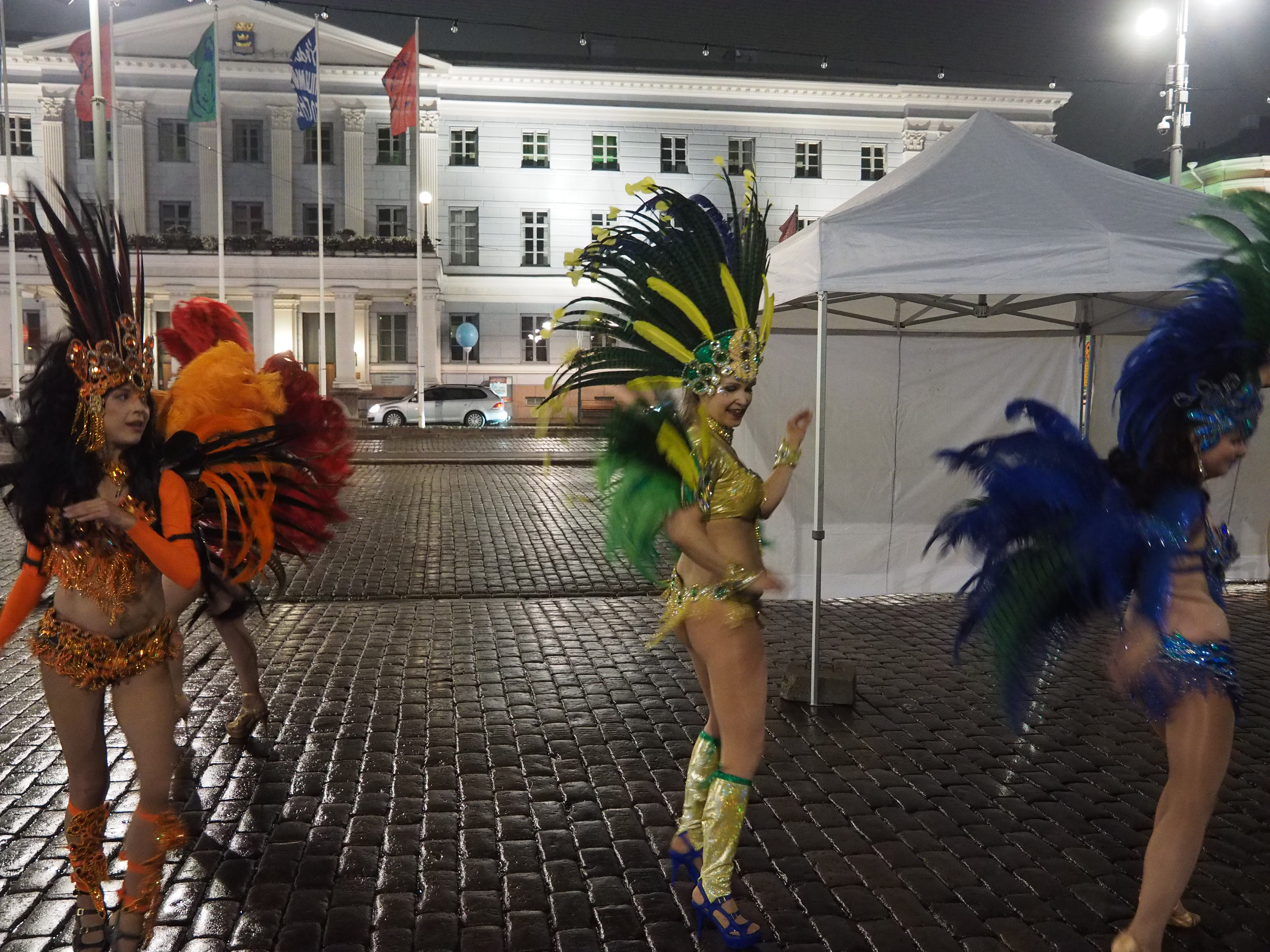 Samba dancers from Império do Papagaio performing at Midnight Run 2017 in Helsinki, Finland.